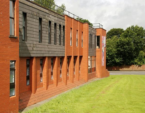 The House of Sport, Belfast The House of Sport, beside the Malone roundabout, houses the offices of the Quango, Sport NI.